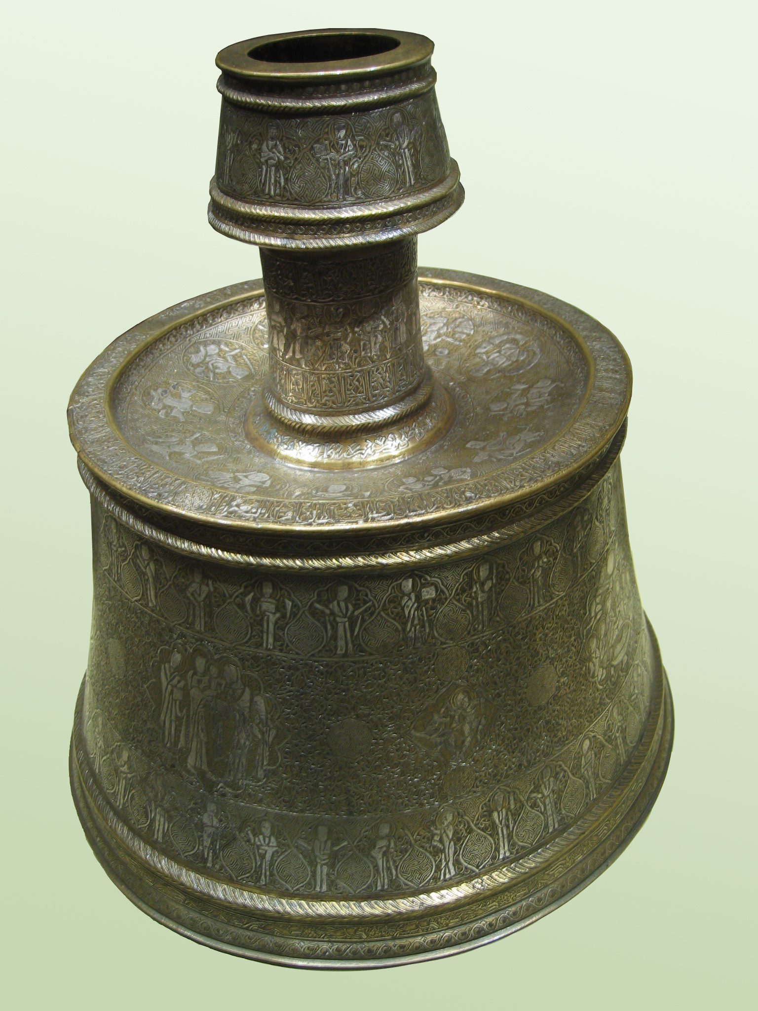 Candlestick with scenes from the life of Christ and hunting scenes; inscription on the neck with the artist's signature, Dawud ibn Salama al-Mawsili from Mossul. Hammered copper alloy with repoussé decoration engraved and inlaid with silver, Iraq or Northern Syria, dated 646 AH (1248-49 CE).